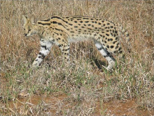 Leptailurus serval in Kruger's Park (South Africa)